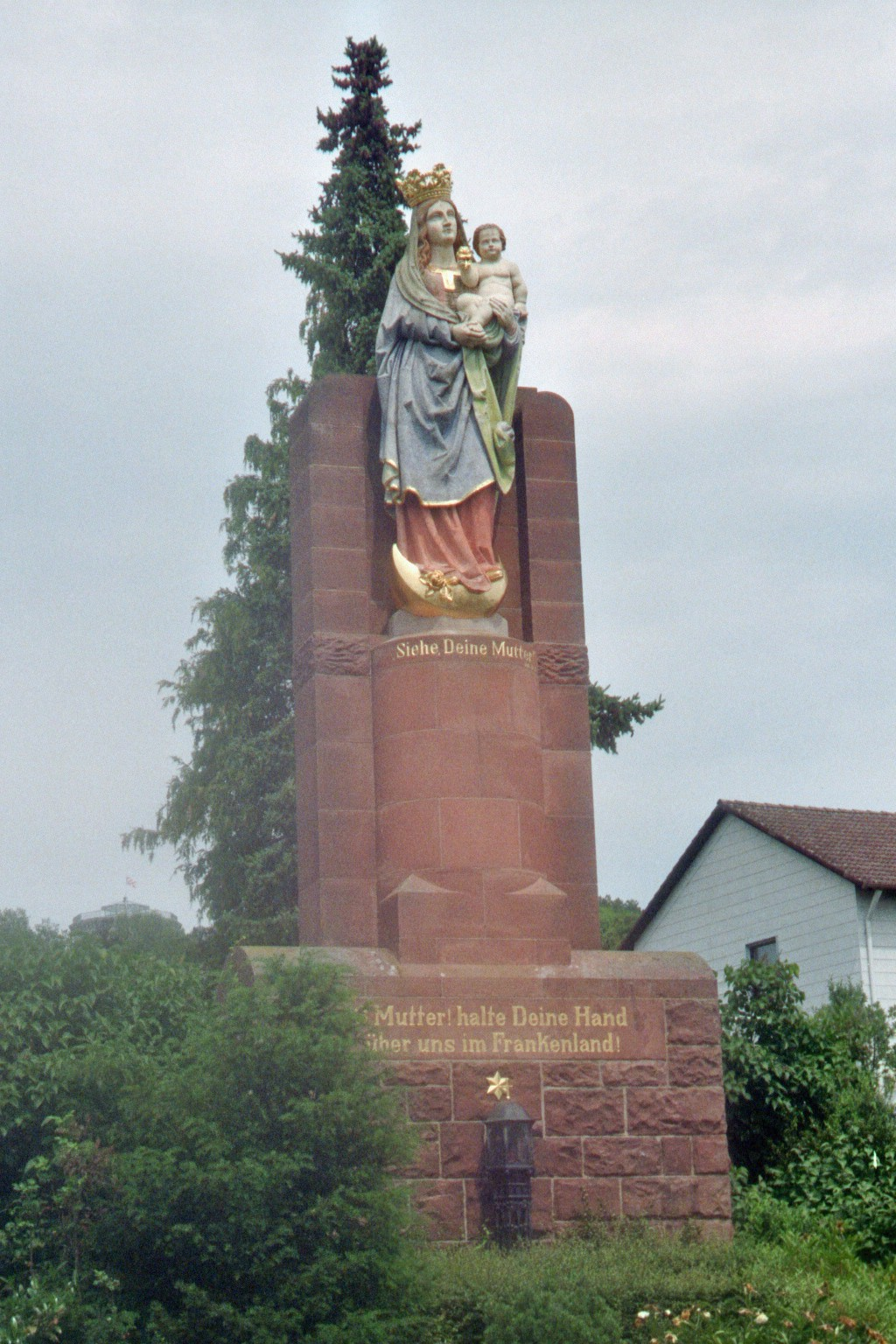 Statue of Holy Mary located at the "Sinnberg", a hill in the the German spa town of Bad Kissingen in Lower Franconia, Bavaria.